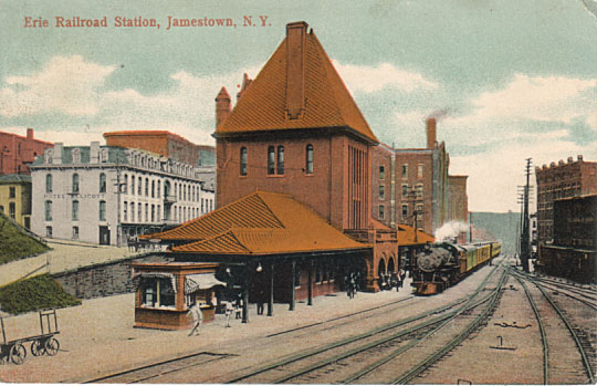 Postcard: Erie Railroad Station, Jamestown, New York. Postcard view with 1909 postmark Description: "POSTALLY USED 1909. [...] CAN SEE A SMALL NEWSPAPER STAND AT THE END OF THE STATION BUILDING"